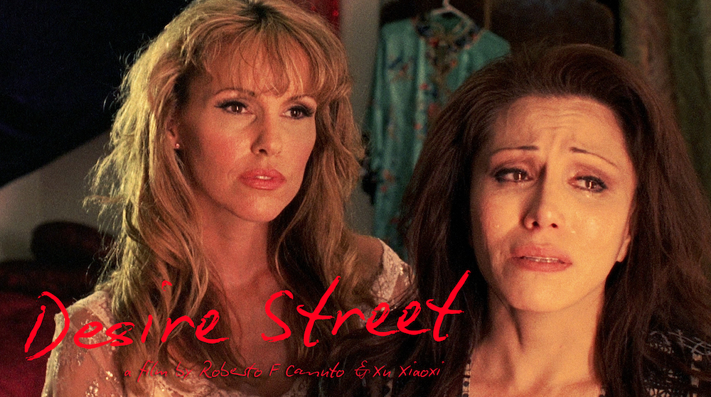 Desire Street (film) a film by Roberto F. Canuto & Xu Xiaoxi. Scene from the film.